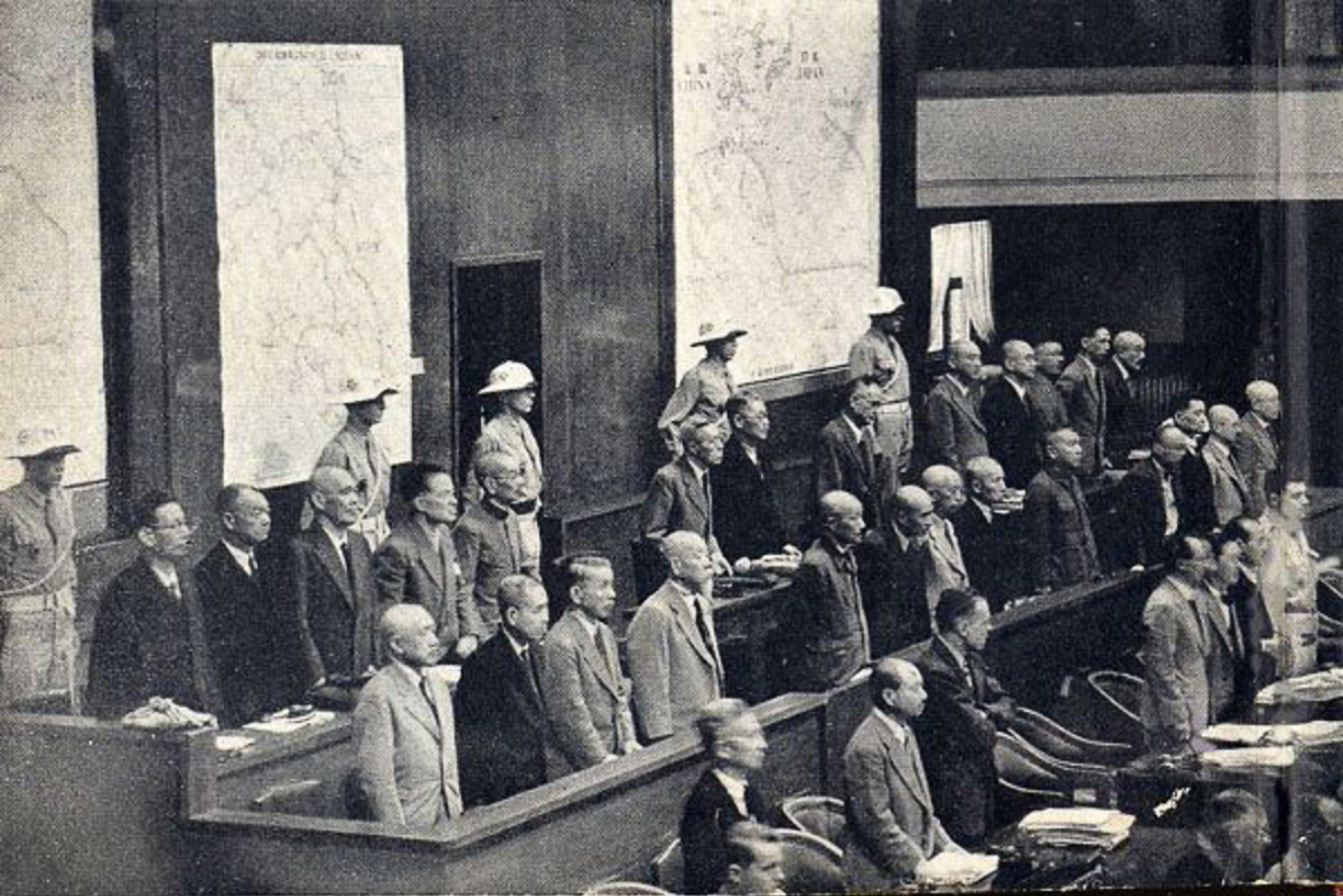 The defendants at the International Military Tribunal for the Far East Ichigaya Court: Accused Japanese war criminals in the prisoners' box. Front row of defendants from left to right: General Kenji Doihara; Field Marshal Shunroku Hata; Koki Hirota, former prime minister of Japan; General Jiro Minami; General Hideki Tojo, former prime minister of Japan; Takasumi Oka; General Yoshijiro Umezu; General Sadao Araki; General Akira Muto; Naoki Hoshino; Okinori Kaga; Marquis Koichi Kido. Back row: Colonel Kingiro Hashimoto; General Kuniaki Koiso; Admiral Osami Nagano; General Hiroshi Oshima; General Iwane Matsui; Shumei Okawa; Baron Kiichiro Hiranuma; Shigenori Togo; Yosuke Matsuoka; Mamoru Shigemitsu; General Kenryo Sato; Admiral Shigetaro Shimada; Toshio Shiratori; Teiichi Suzuki.